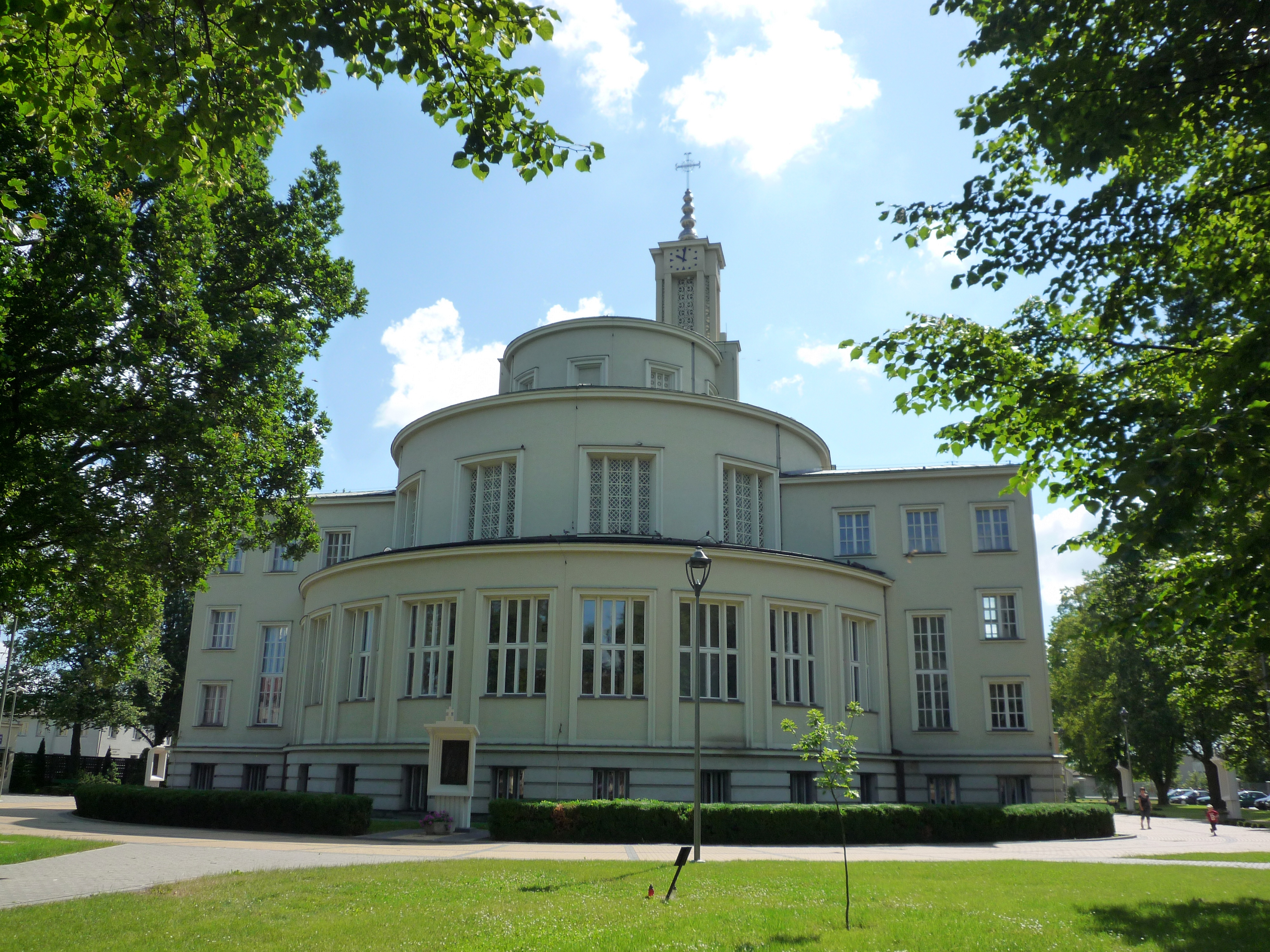 Basilica of Niepokalanów - a view from the west side